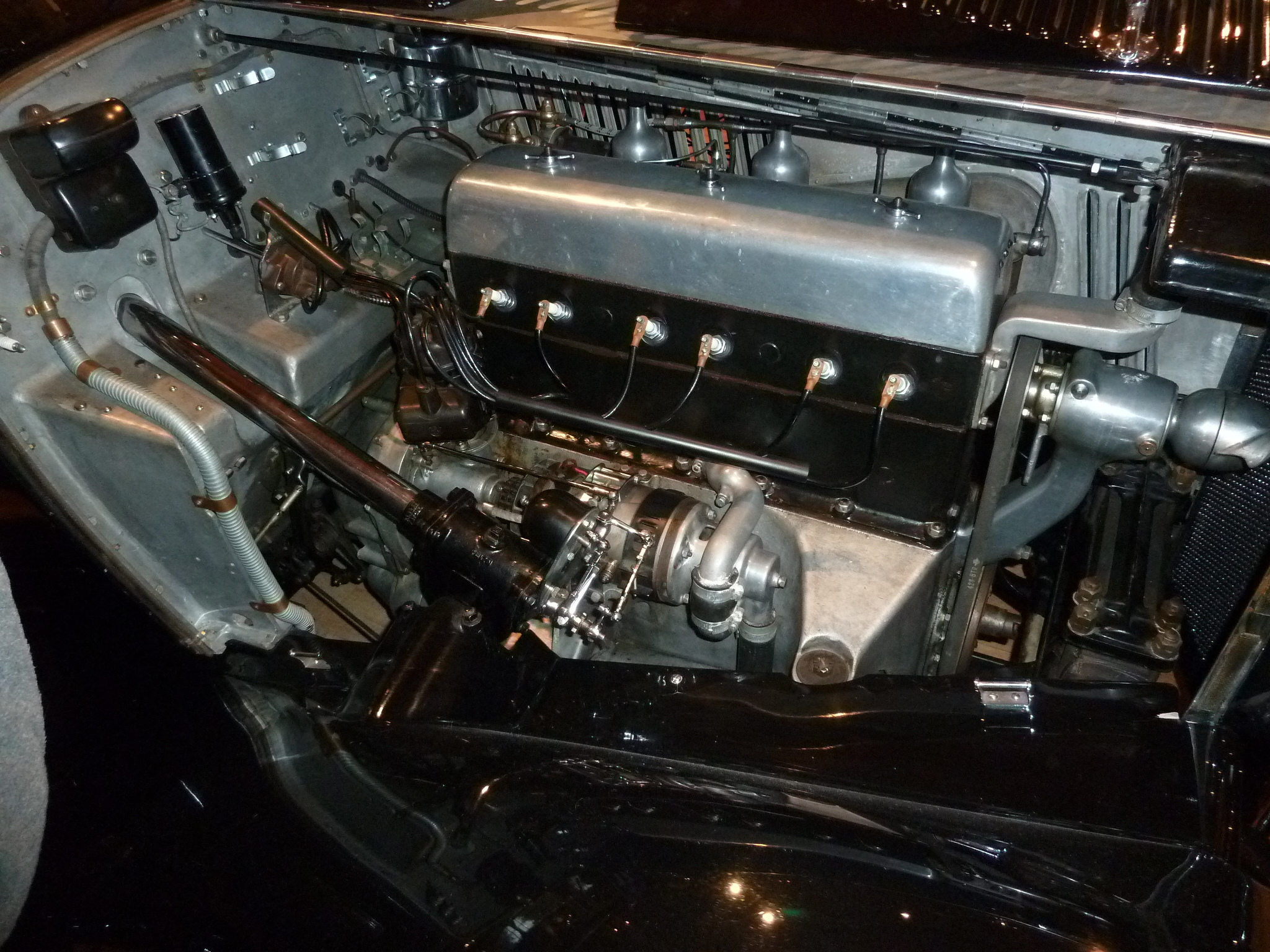 1935 Alvis Speed 20 SC Lancefield drophead coupé BYY 902 (DVLA) first registered 13 August 1935, 2655cc